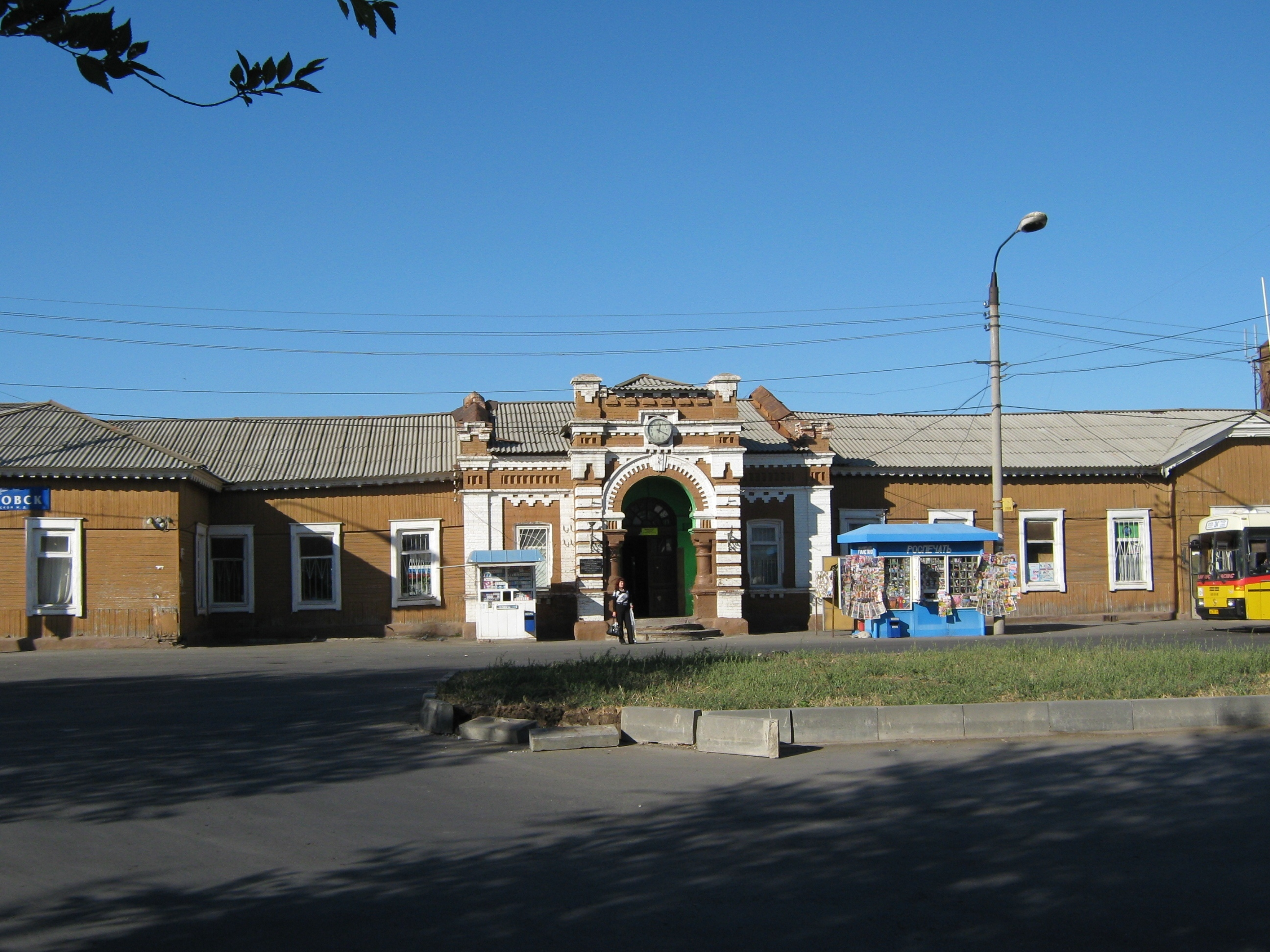 Railways Station of Pokrovsk